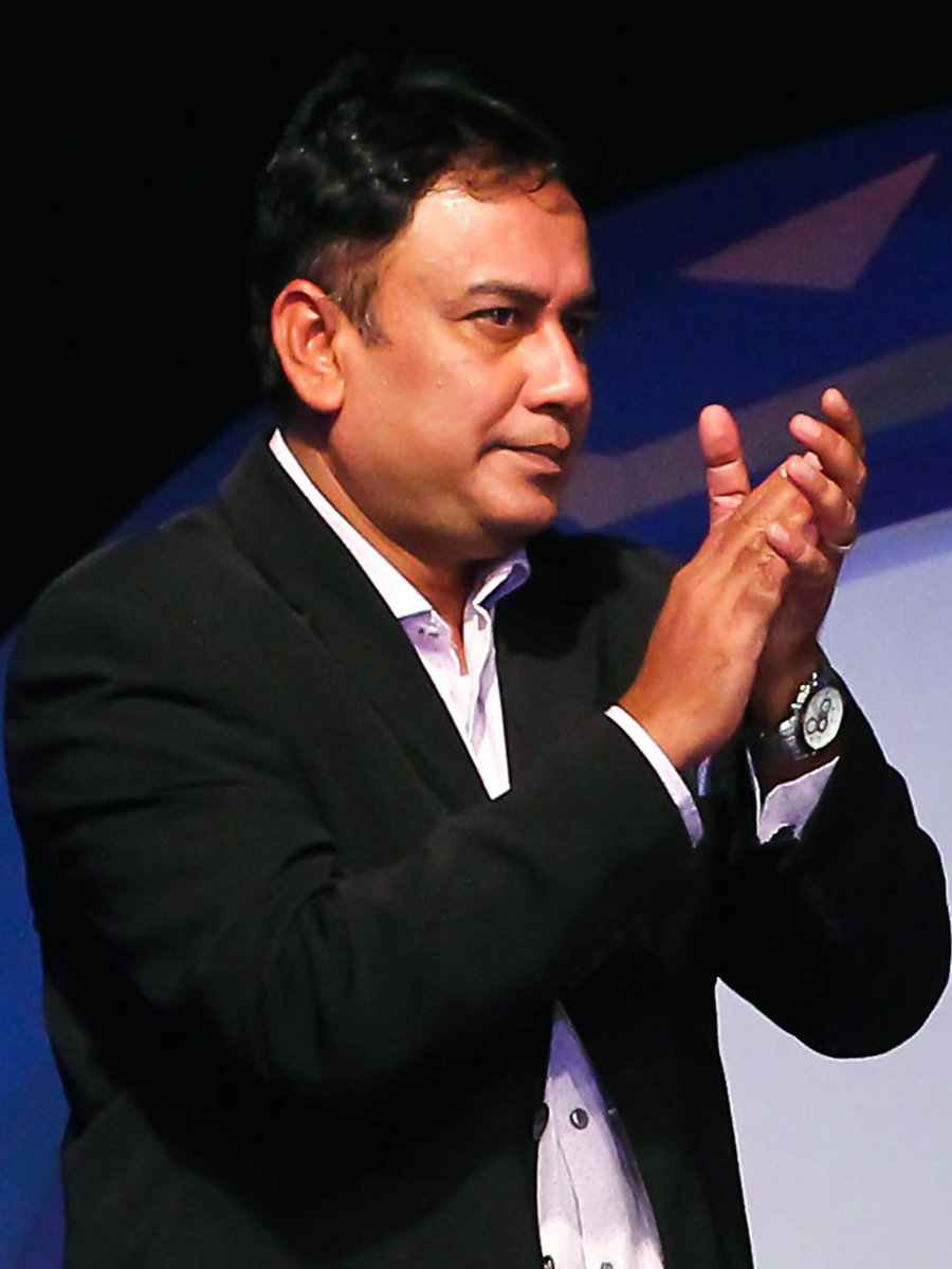 Zahid Hasan in 2014. Cropped from original upload